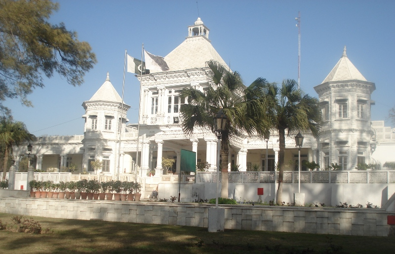 Main building and vice chancellor's office of Fatima Jinnah Women University